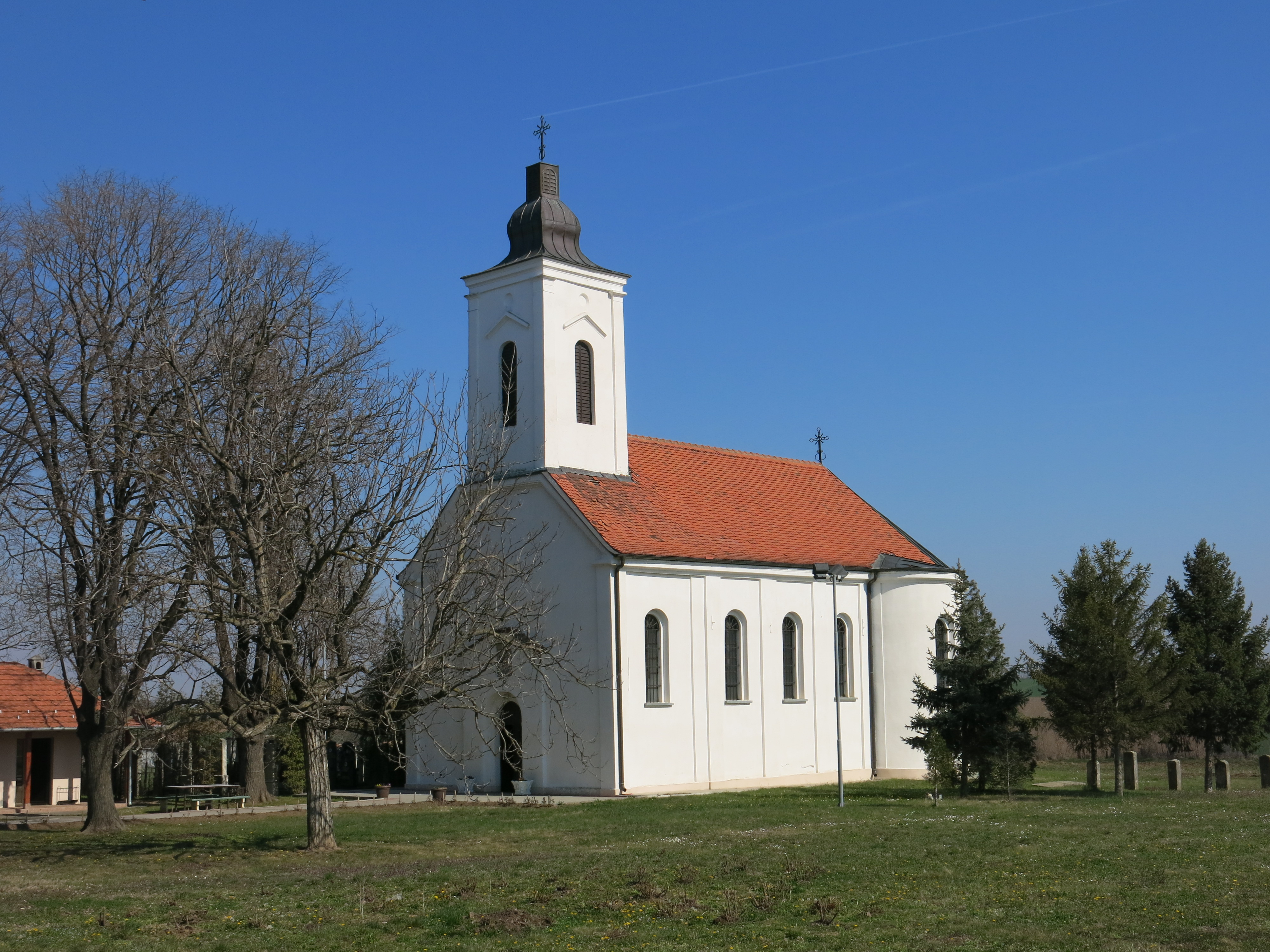 Velika Moštanica, Church of the birth of Virgin Mary